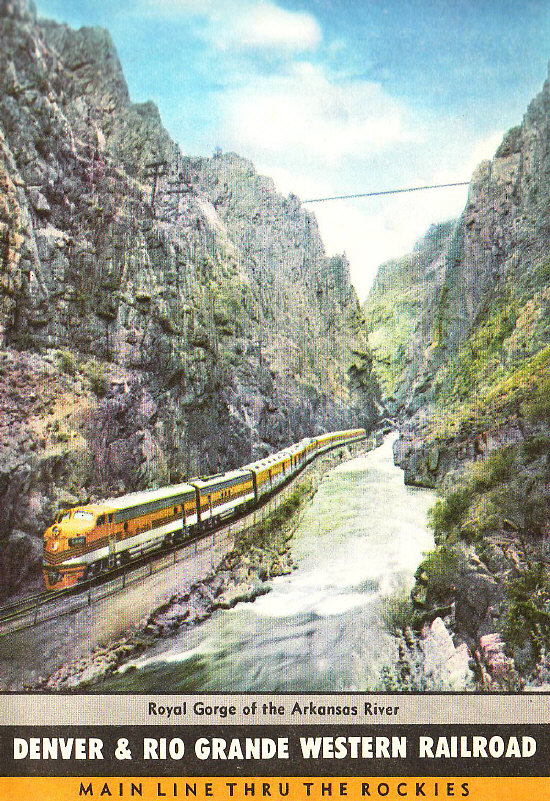 The Denver and Rio Grande Railroad's train #1, the "Royal Gorge". Pictured at the Royal Gorge, Colorado (U.S.)